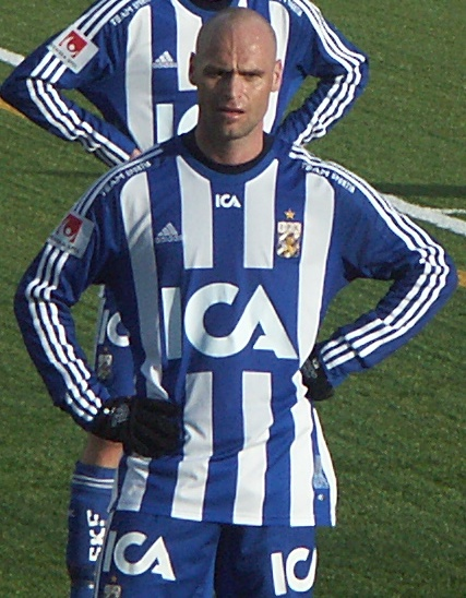 Thomas Olsson, footballer of IFK Göteborg, during a pre-season game 2009.